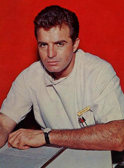 Postcard photo of Vincent Edwards as Ben Casey. The postcards were sent in response to fan mail.